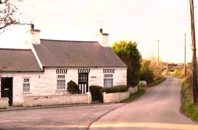 Ty Frannan, birthplace of author W. D. Owen (1874) This view of Ty Frannan has possibly changed very little since W. D. Owen was born here in 1874.